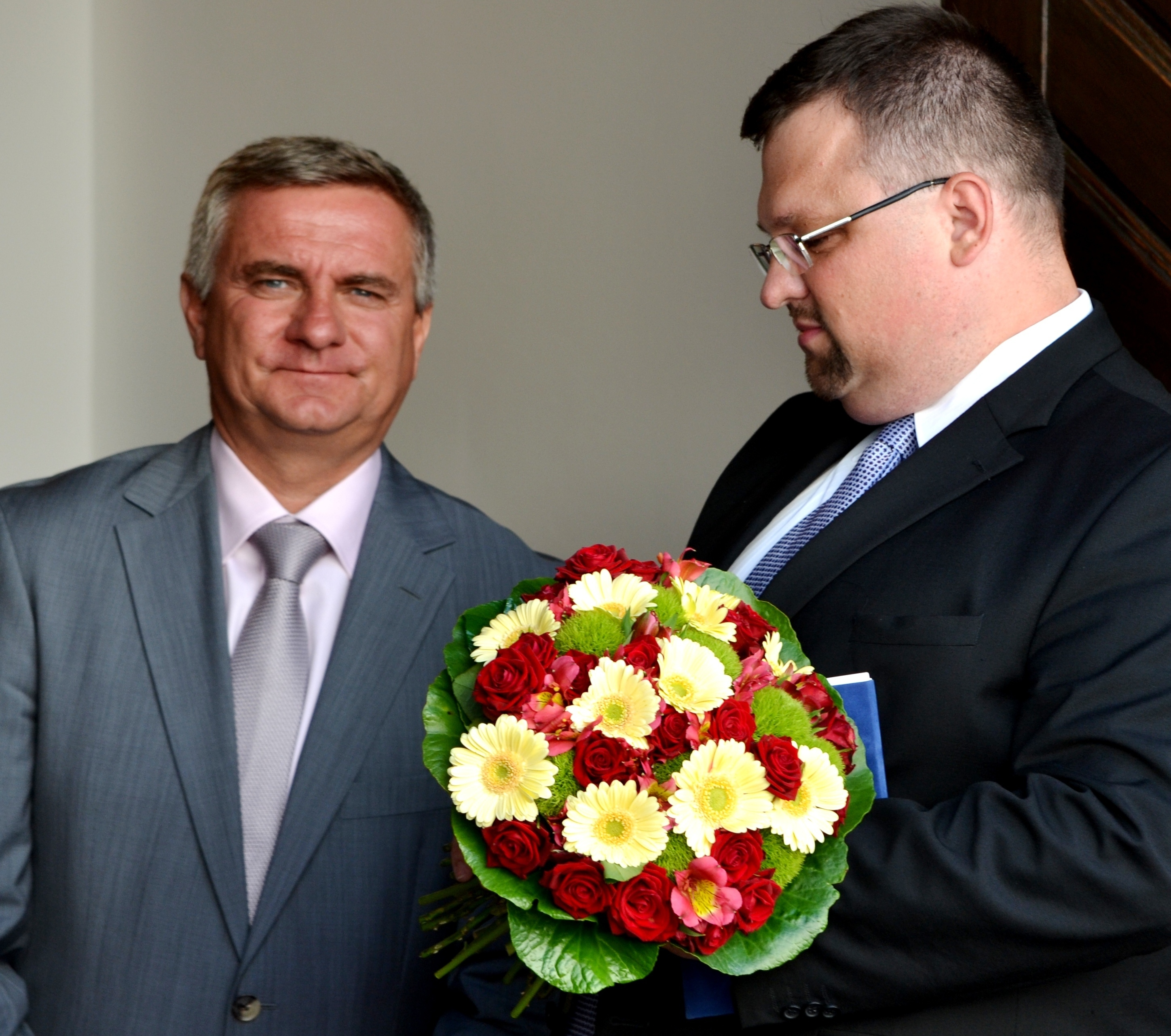 Vratislav Mynář, Chancellor of the Office of the President of the Czech Rep. (left) and Jindřich Forejt, Director of the Protocol Dept. of the Office of the President of the Czech Republic